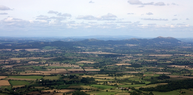 The Malvern Hills The great granite ridge rises up at the edge of the Severn plain. Taken from an aeroplane somewhere above Sandhurst soon after take-off from Gloucestershire Airport